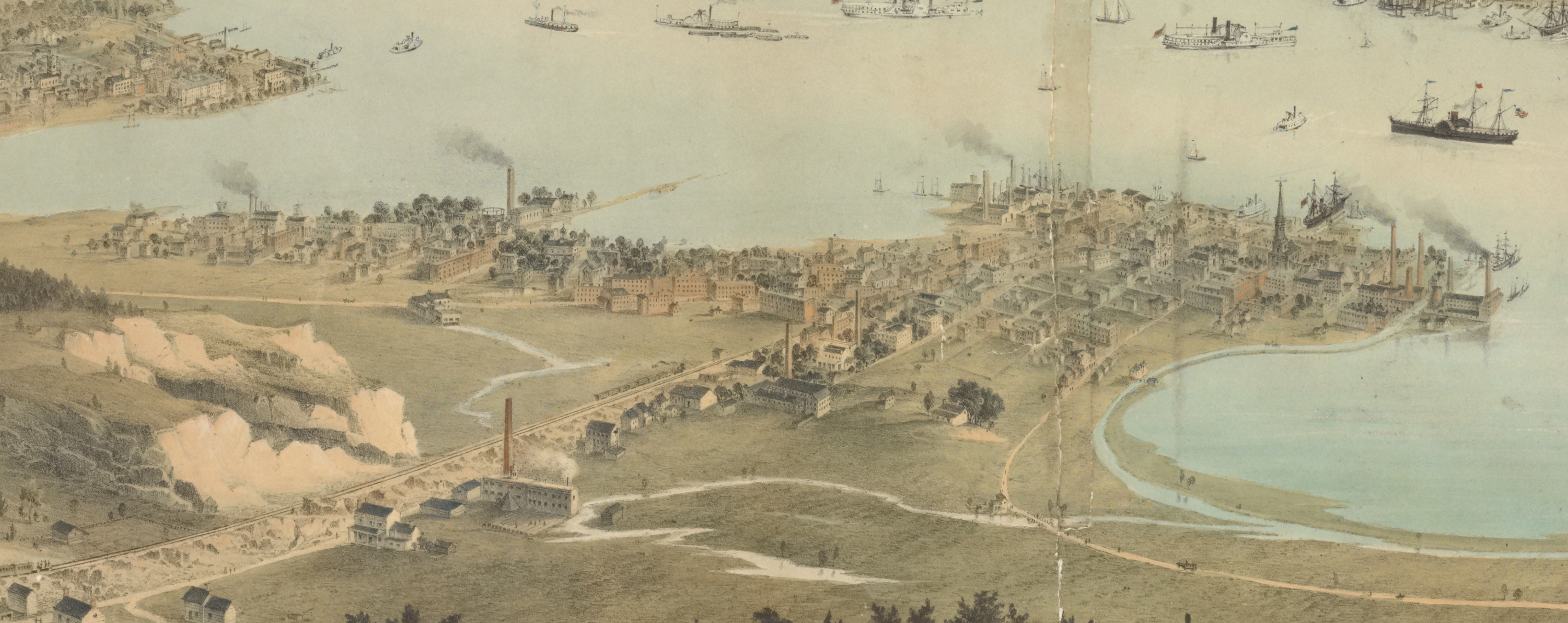 Eno 334++